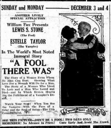 Newspaper advertisement for the American drama film A Fool There Was (1922) with Lewis Stone and Estelle Taylor, on page 5 of the December 1, 1922 The St. Louis Argus.